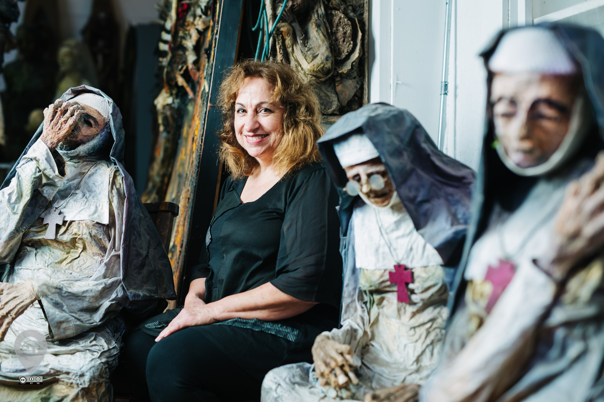 and